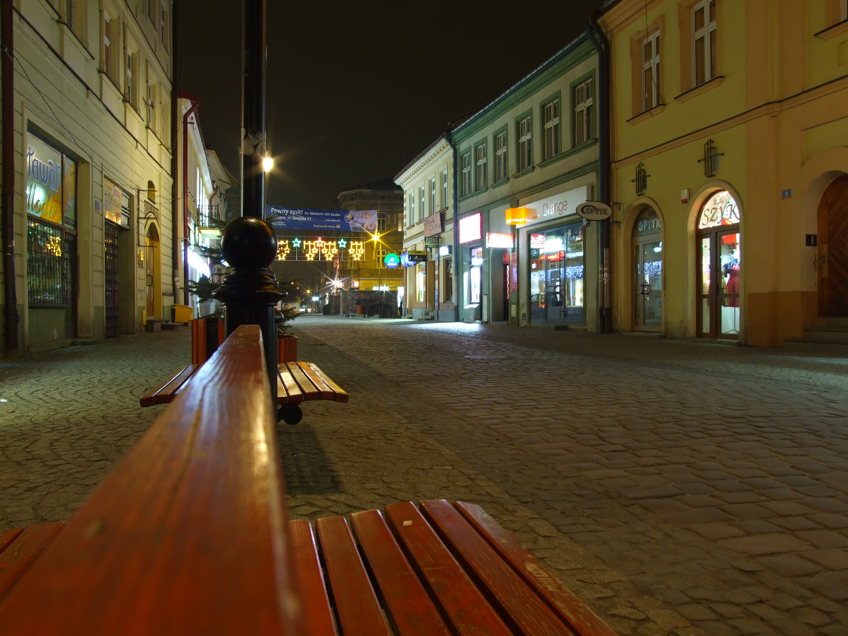 Jarosław street at night, slightly before Christmas. Jarosław is a city in Podkarpackie Voivodship in Poland, located near Ukrainian borderhelp